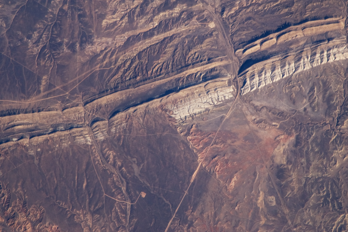 Cretaceous–Paleogene boundary at Raven Ridge in NW Colorado Astronaut photograph ISS018-E-11127 was acquired on December 6, 2008, with a Nikon D2Xs digital camera fitted with an 800 mm lens, and is provided by the ISS Crew Earth Observations experiment and Image Science & Analysis Laboratory, Johnson Space Center. It should be noted that the K-T boundary here is represented by an erosional unconformity along Raven Ridge and rocks immediately below, above and containing the K-T boundary are not present. USGS Geologic Quadrangle Map, Banty Point Quadrangle, Colorado GQ-703.